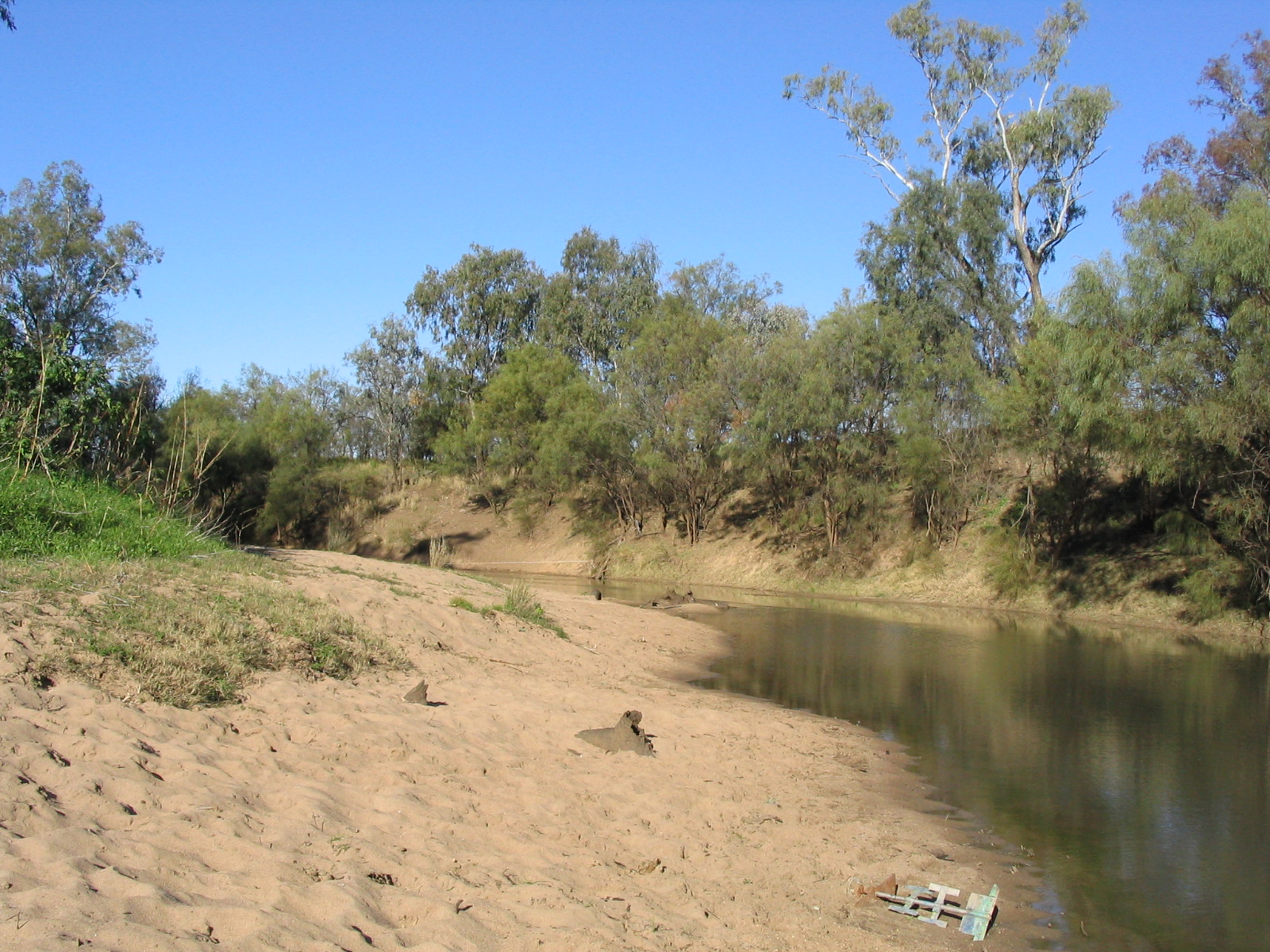 Namoi River, NSW, Australia. A sand bar and the opposite bank. River Style: Anabranching, meandering fine grained. Map reference: Cuttabri 1:50000, GR 0716097E 6645916N (approx).